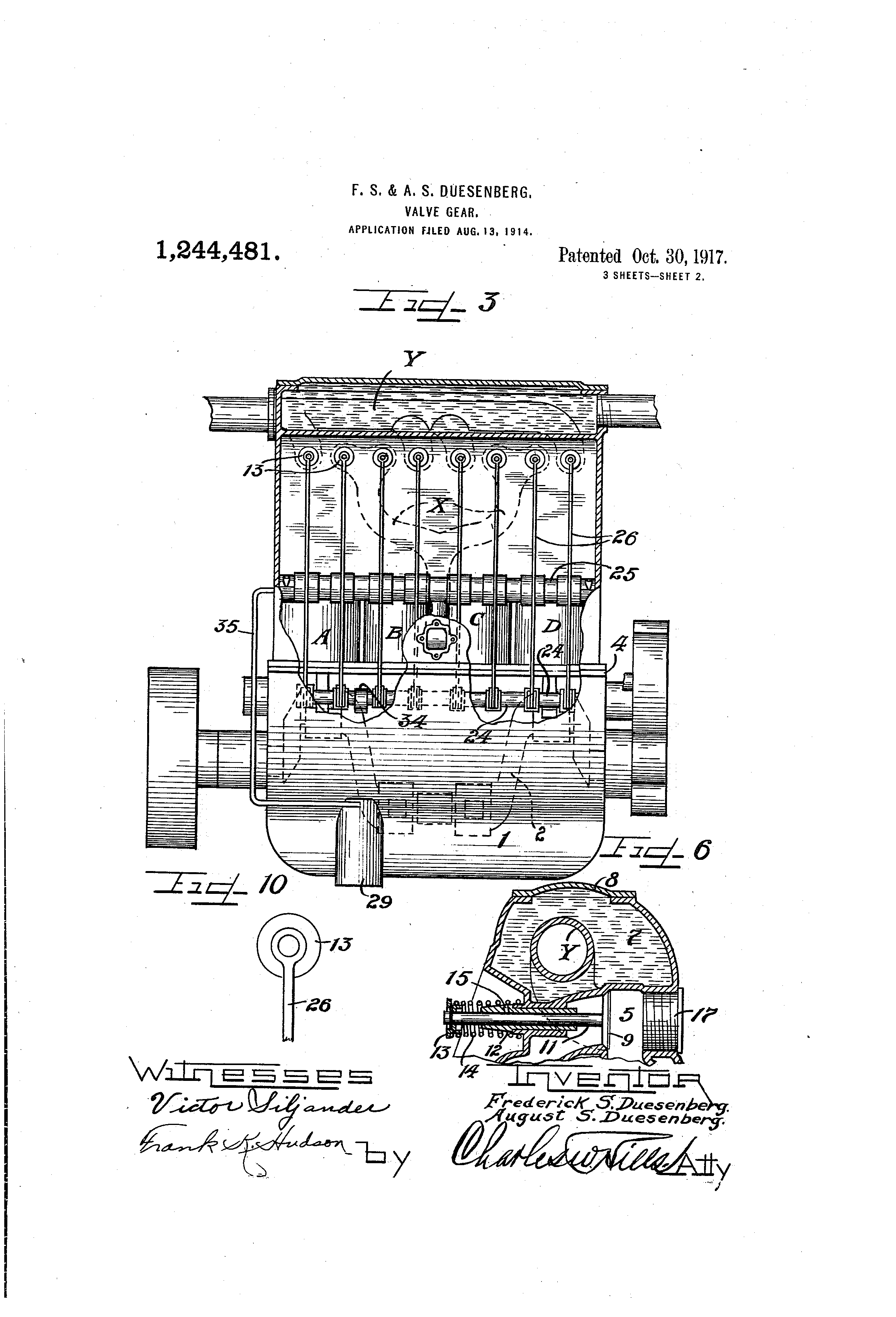 US Patent 1244481 - "Valve gear" -"Walking Beam" Figure 1.